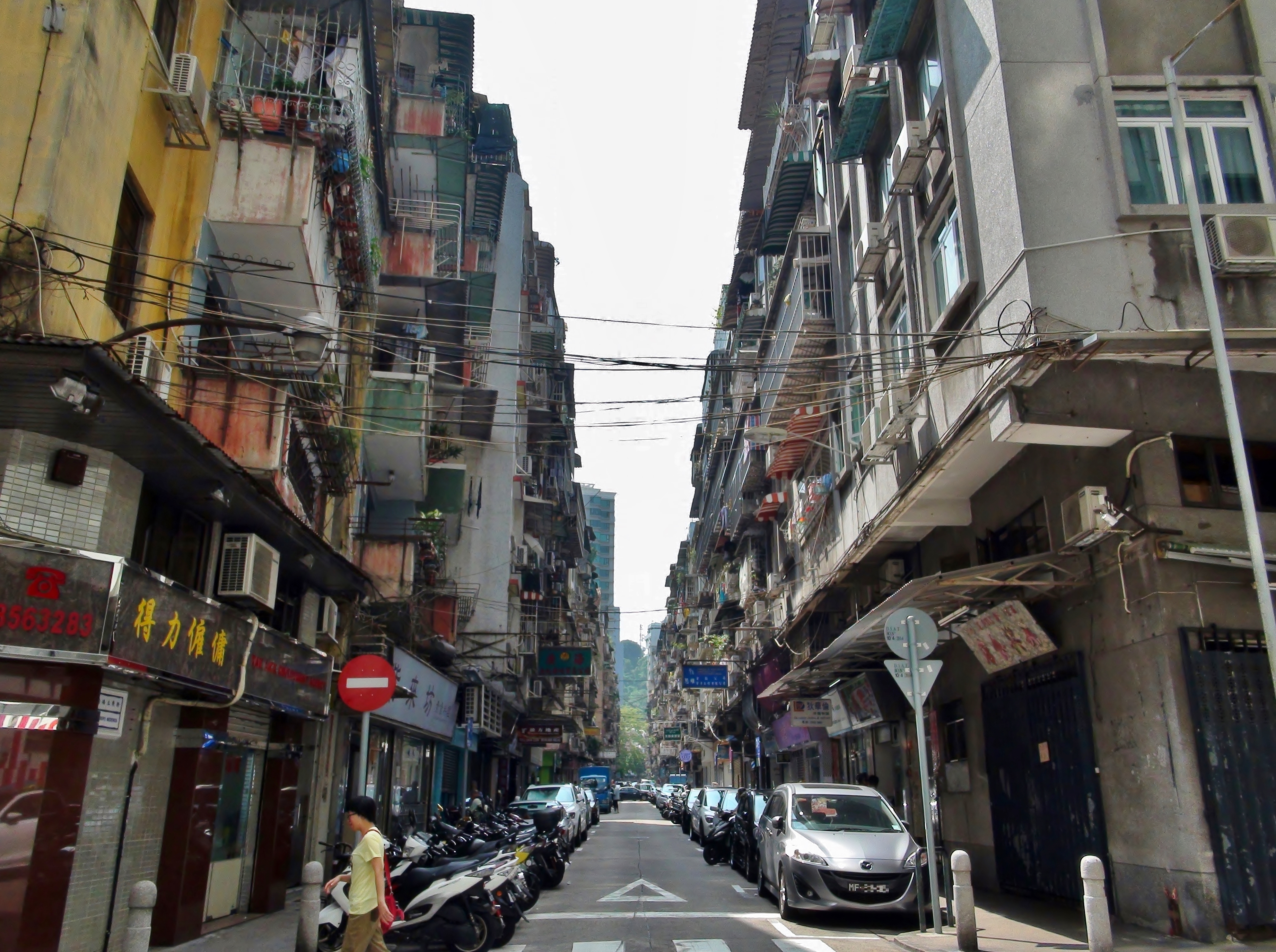 Rua do Bispo Medeiros.